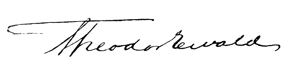 Scan of author Theodor Ewald's signature from a book.